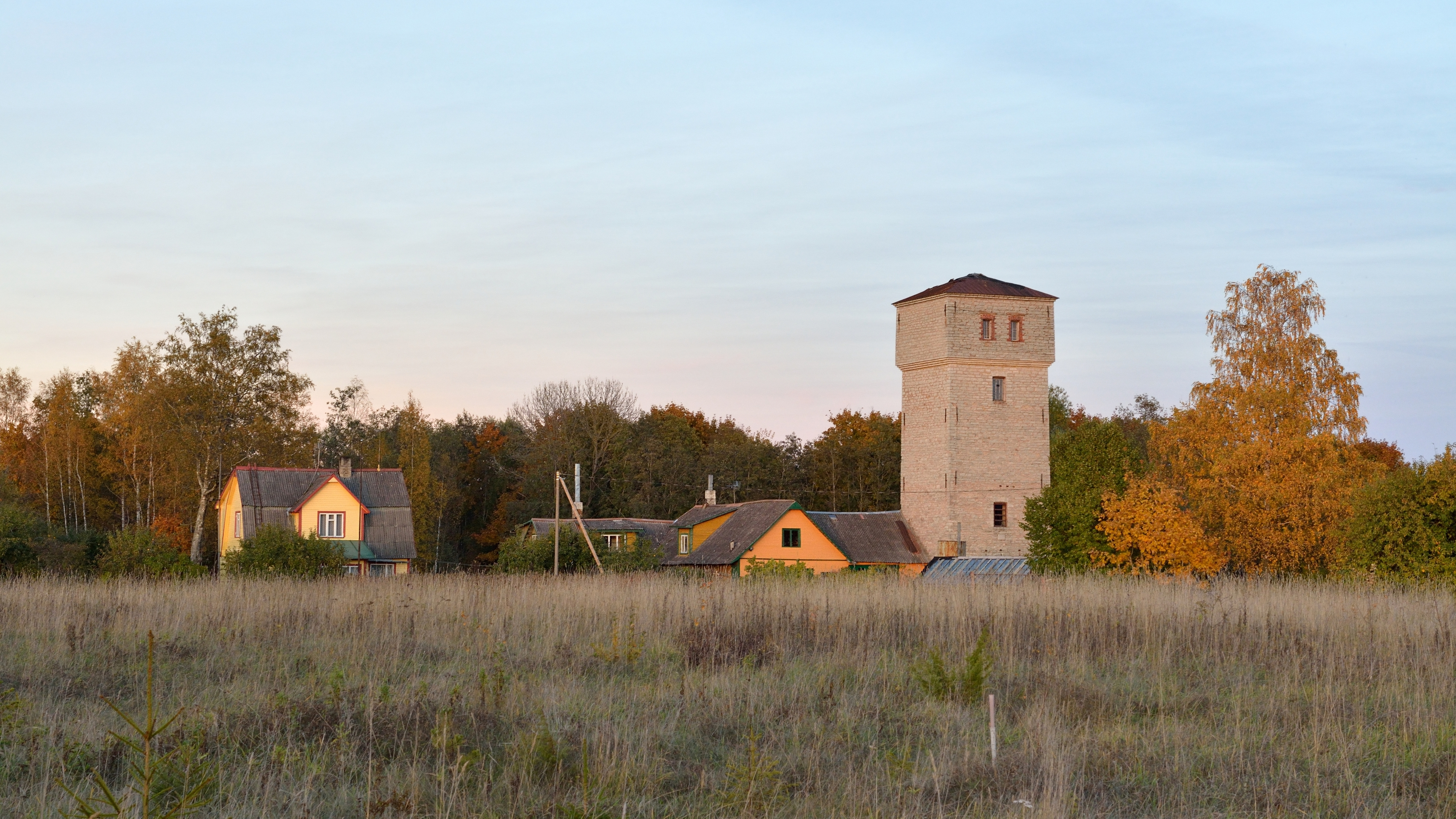 Vasalemma manor water tower, built in 1913.